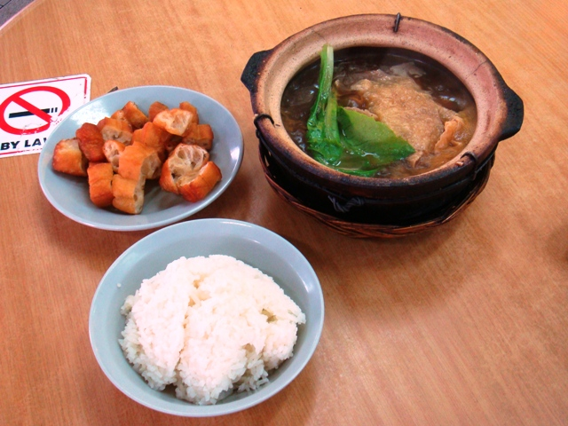 Bak Kut Teh, one of the Singapore's local dishes.